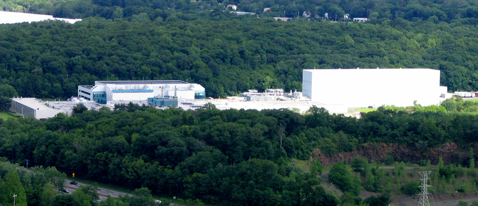 Novartis' Suffern, NY plant. Taken by User:Mwanner, 5 June, 2006